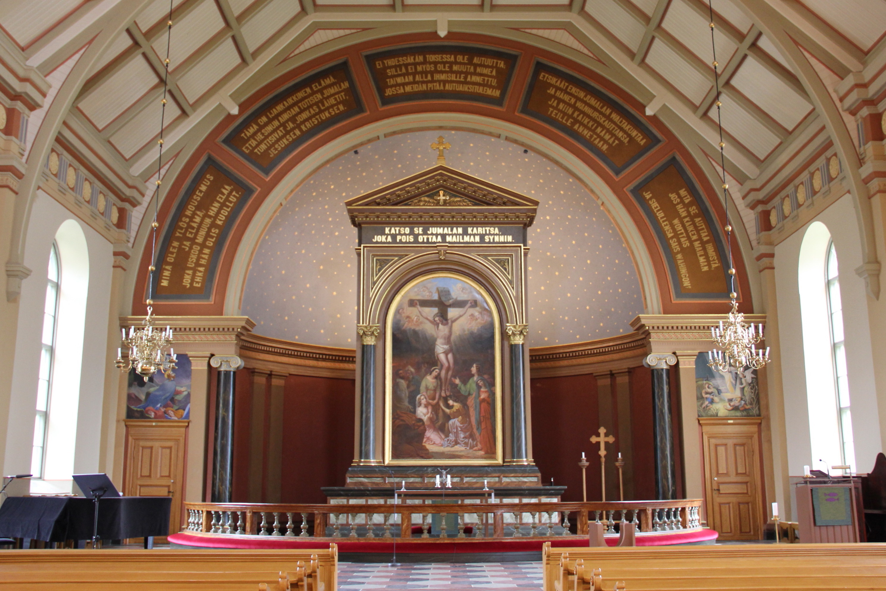 Interior of Kanta-Loimaa church. - Choir and altar.